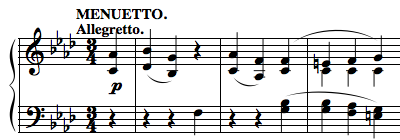 Excerpt from Beethoven's Sonata No.1 Mvt. 3 (Op. 2, No. 1)